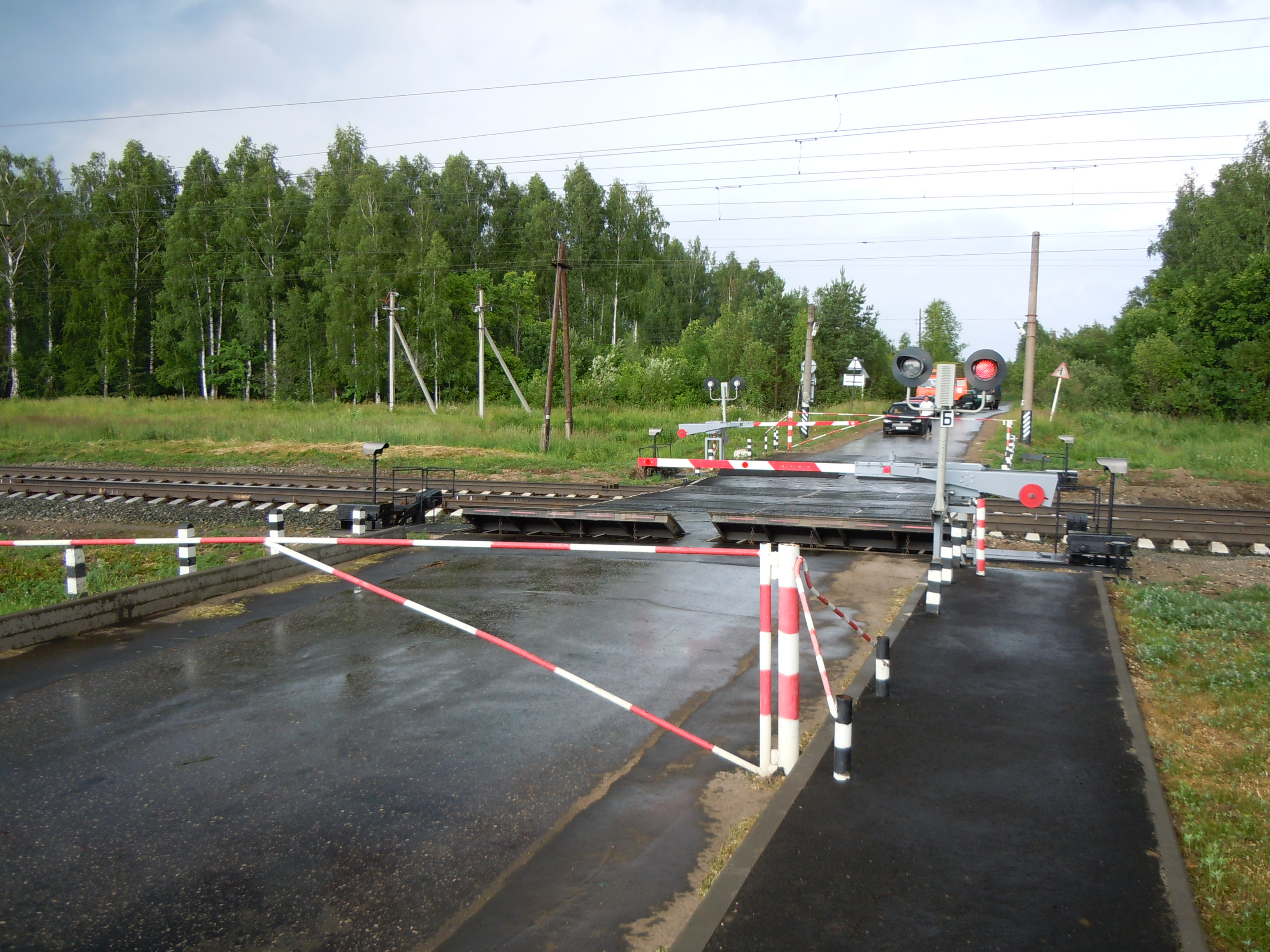 Регулируемый ж/д переезд близ Денисово.